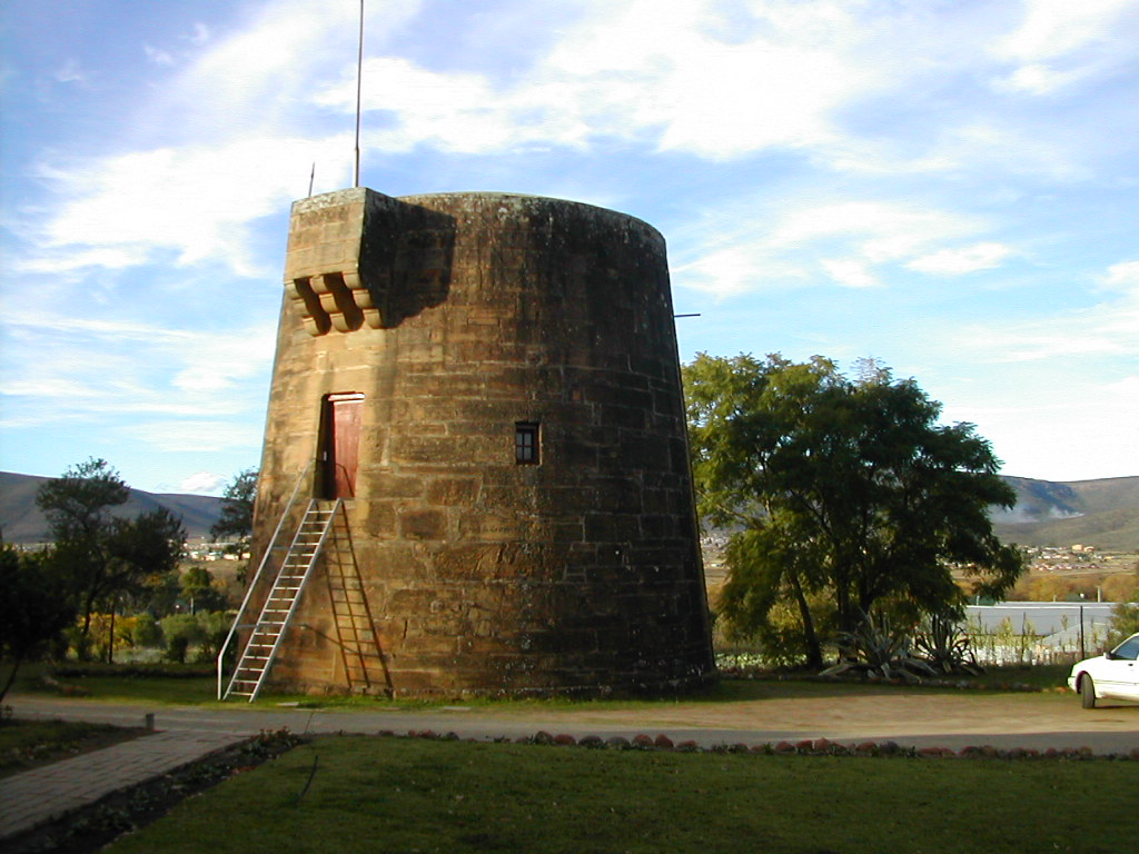 Worlds only inland Martello Tower, Fort Beaufort, Eastern Cape, South Africa. Photographed 2006-06-15 F.F. Jacot-Guillarmod